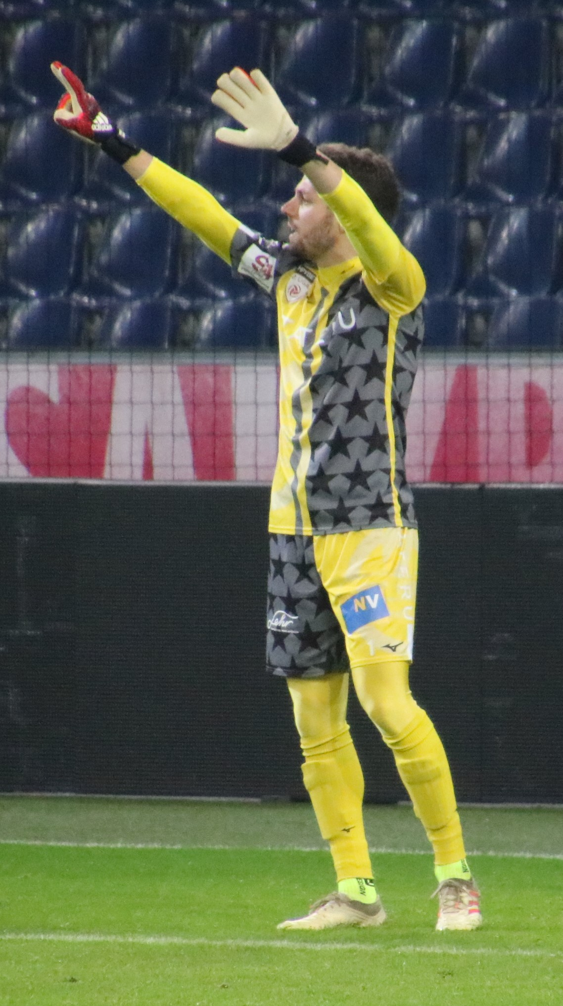 League match, Austria 2nd league